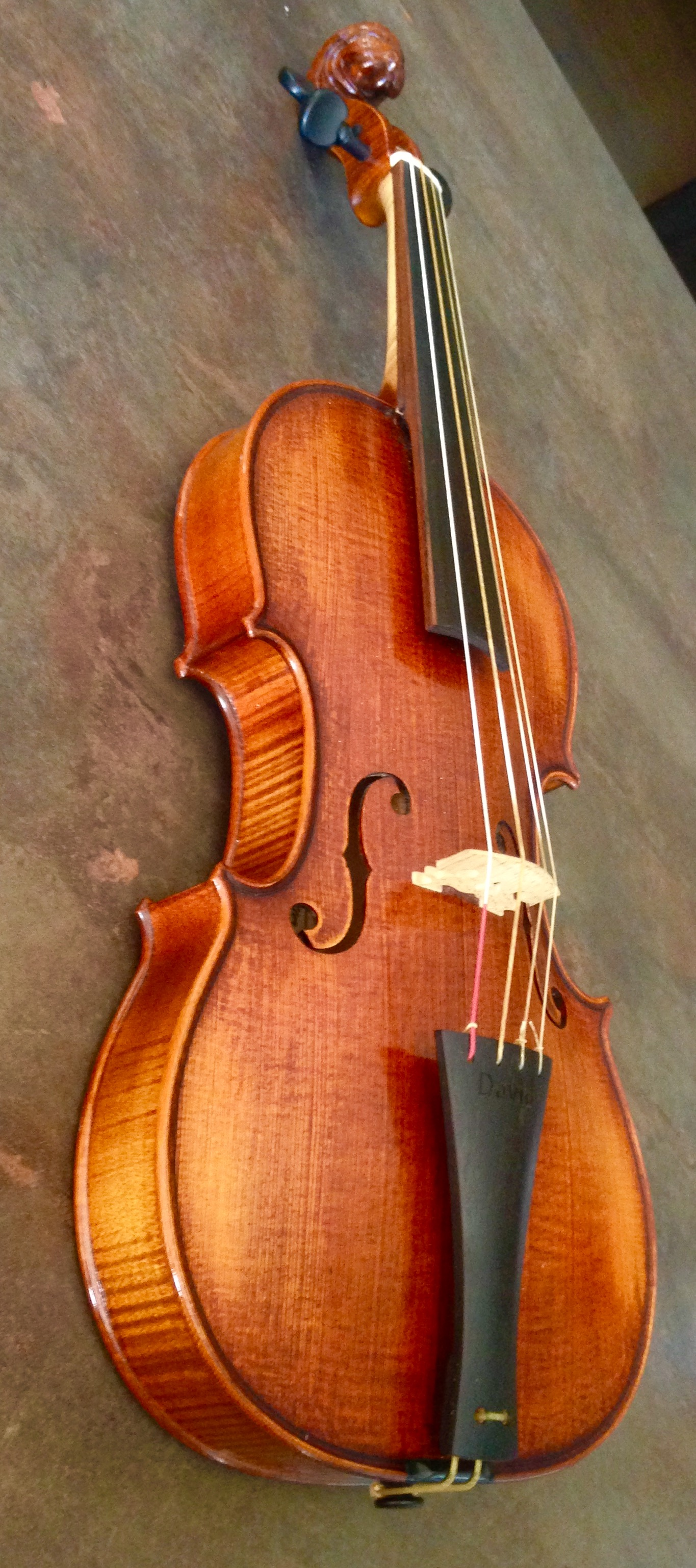 Walther Mahr baroque violin 2010